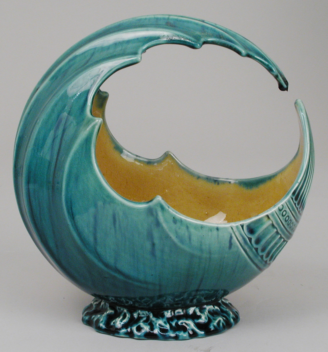 British, Linthorpe, Yorkshire; Wave bowl; Ceramics-Pottery